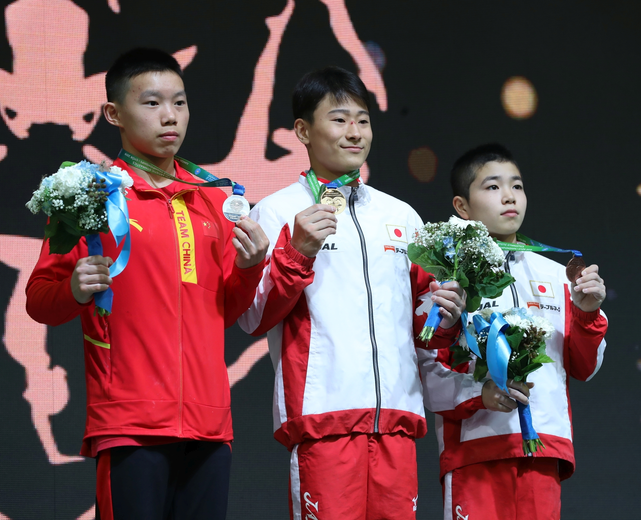 Parallel bars victory ceremony during the boys' apparatus finals at the 1st FIG Artistic Gymnastics Junior World Championships on 30 June 2019 in Győr, Hungary. Depicted: Haonan Yang. Shinnosuke Oka. Takeru Kitazono.